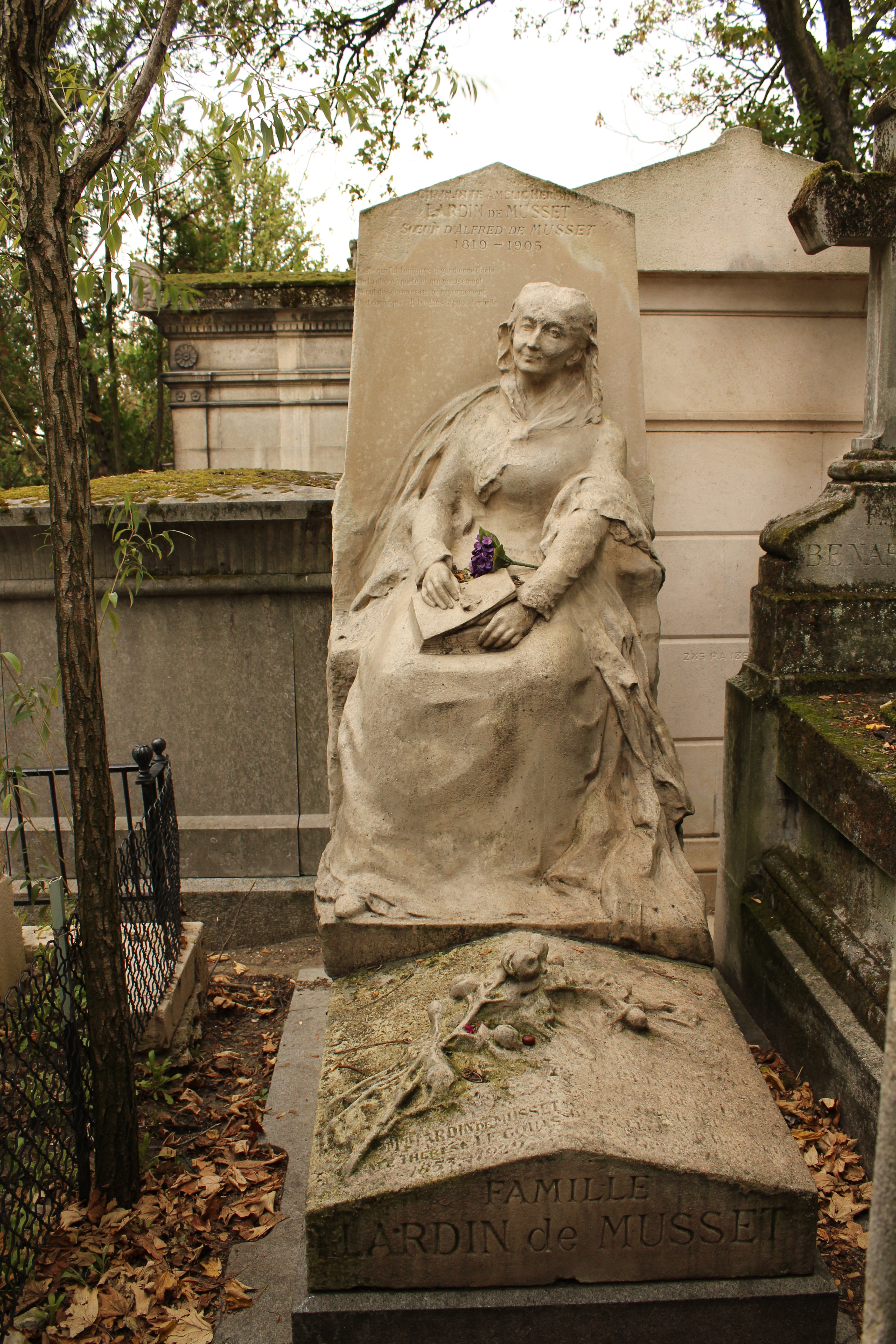 Charlotte Lardin de Musset's tombstone in Père Lachaise Cemetery, in Paris.